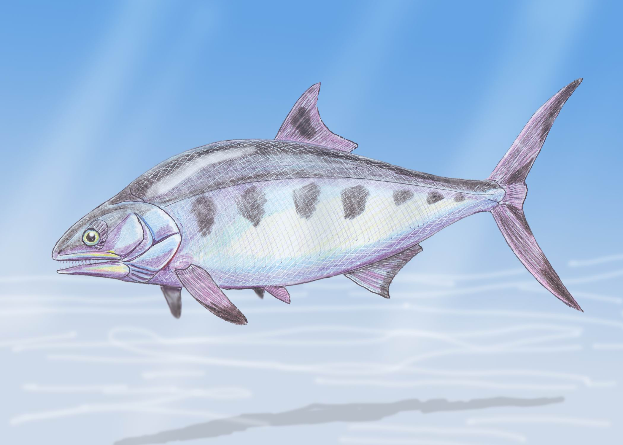 Hypsocormus insignis